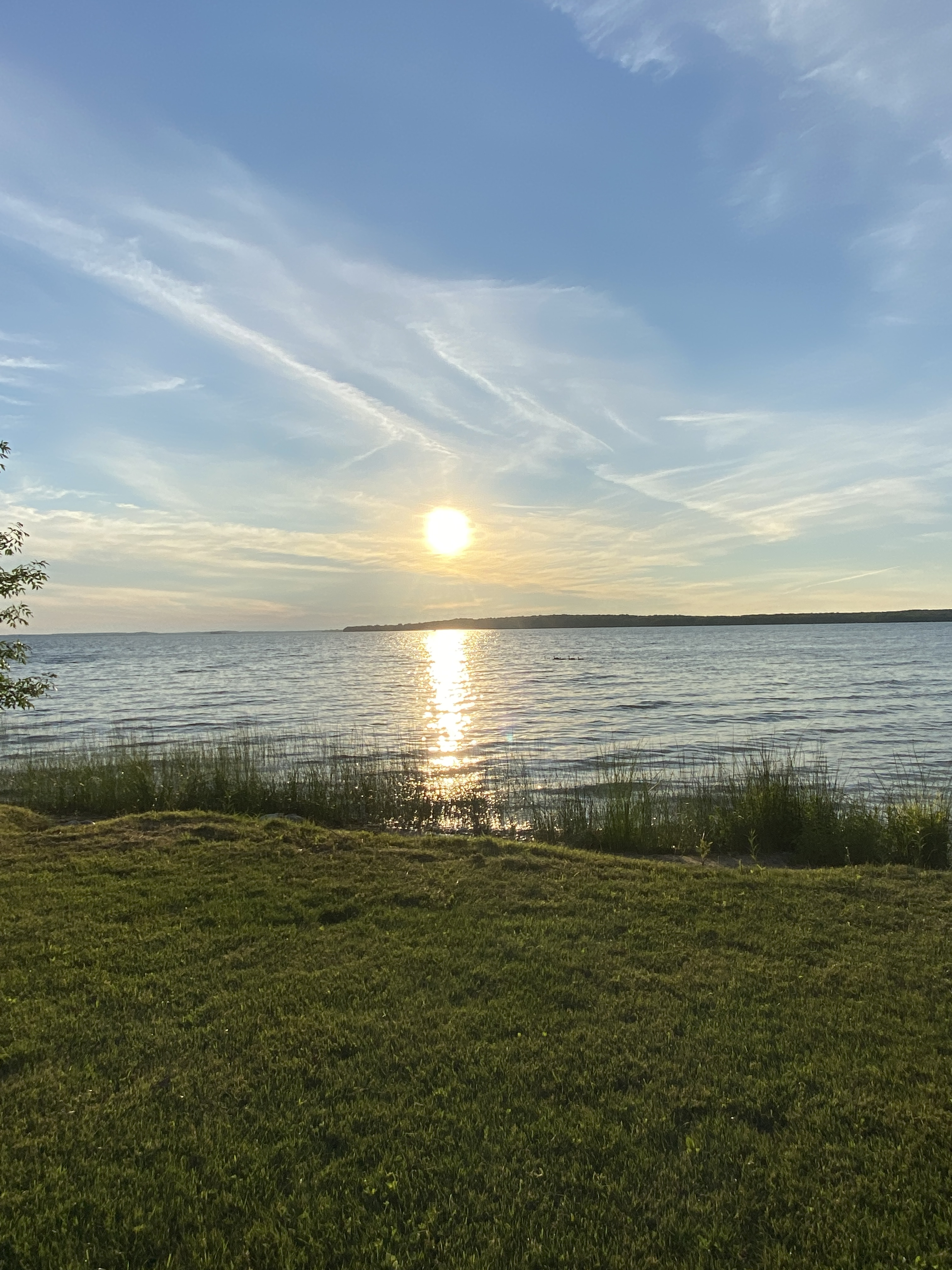 Sunset over Manistique Lake, Curtis, MI, 08/09/2020